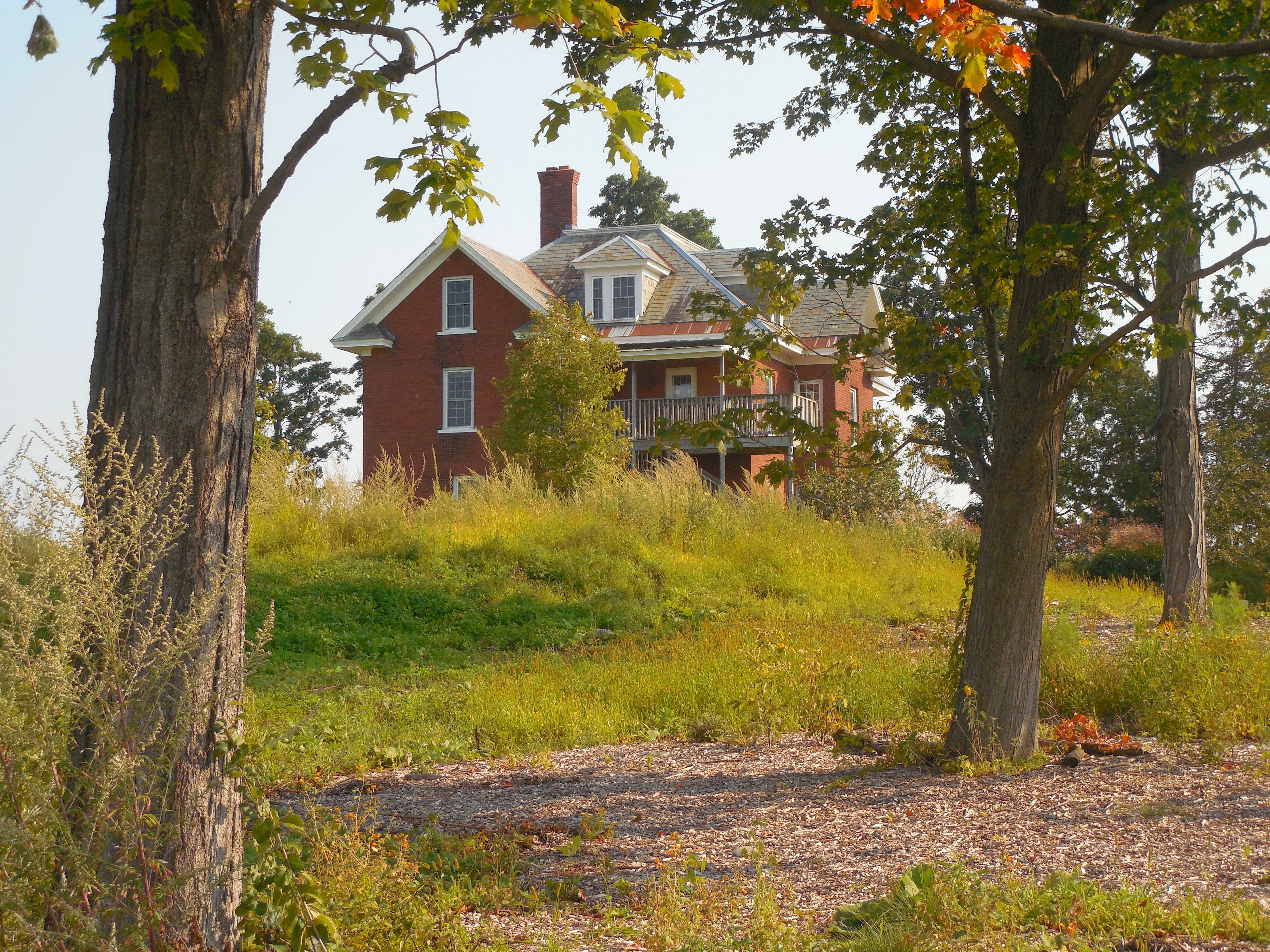 Northern view of the Fletcher-Caulkins House - "Foulsham Farms" at Wheeler Nature Park in South Burlington, Vermont, 2017. Constructed in 1903, originally as the "Fletcher House", the property was recorded in the Vermont Division of Historic Sites & Structures Survey (HSSS # 0414-21) on 21 Jun 1979, and was listed in the Vermont State Register of Historic Places on 23 Nov 1993.